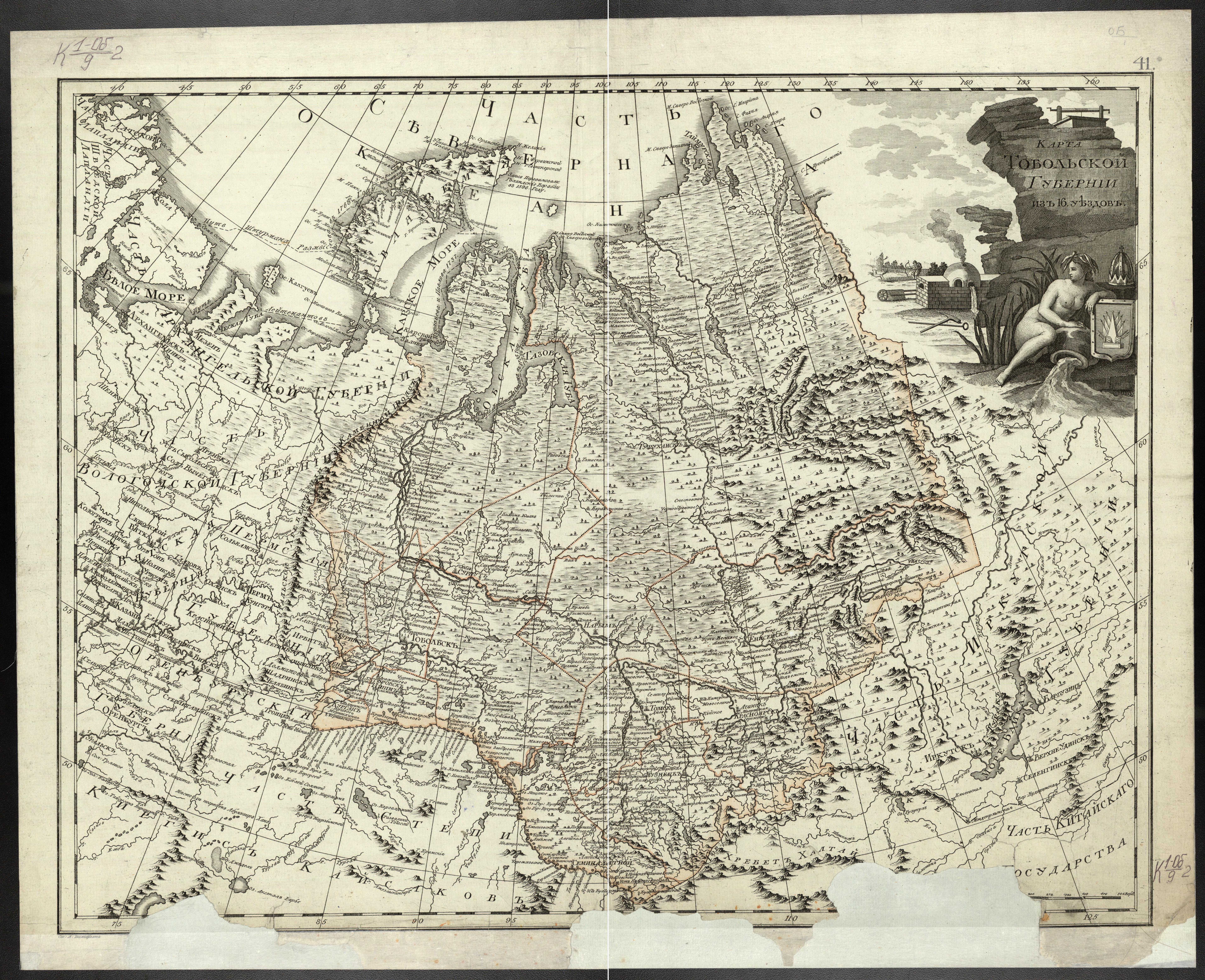 Atlas of Russian Empire. 1800 year. List 41. Tobolskaya Province from 16 uyezds